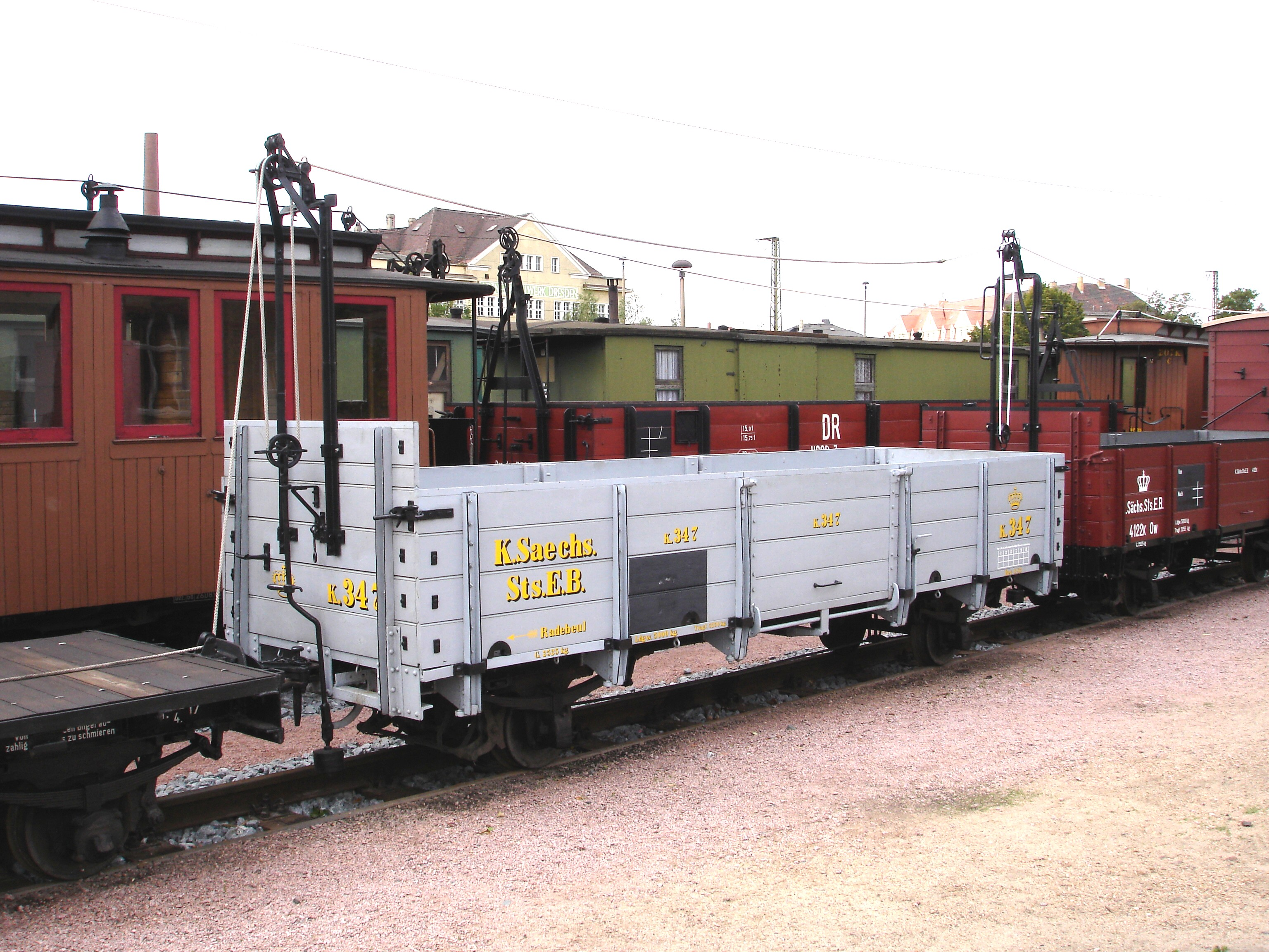 open cargo rail car by narrow gauge railways of Saxony, Germany